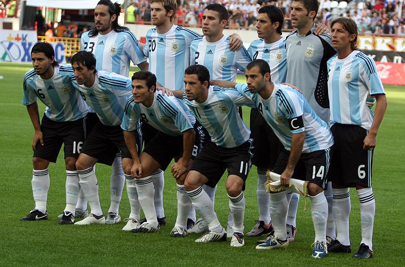 The Argentina national football team in 2009.